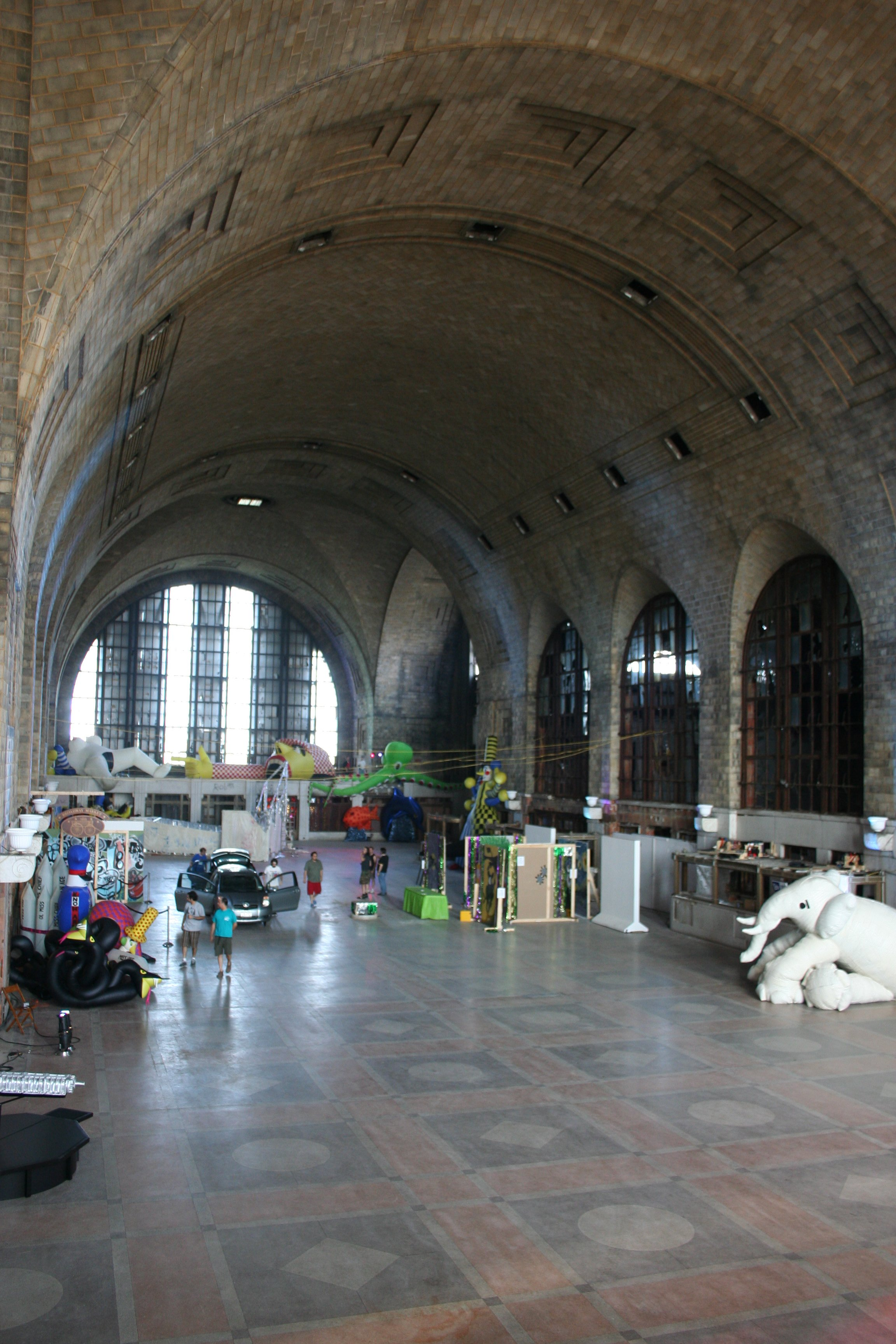 Buffalo Central Terminal, interior - the main concourse. During the setup for Hallwalls' "Artists & Models" event.